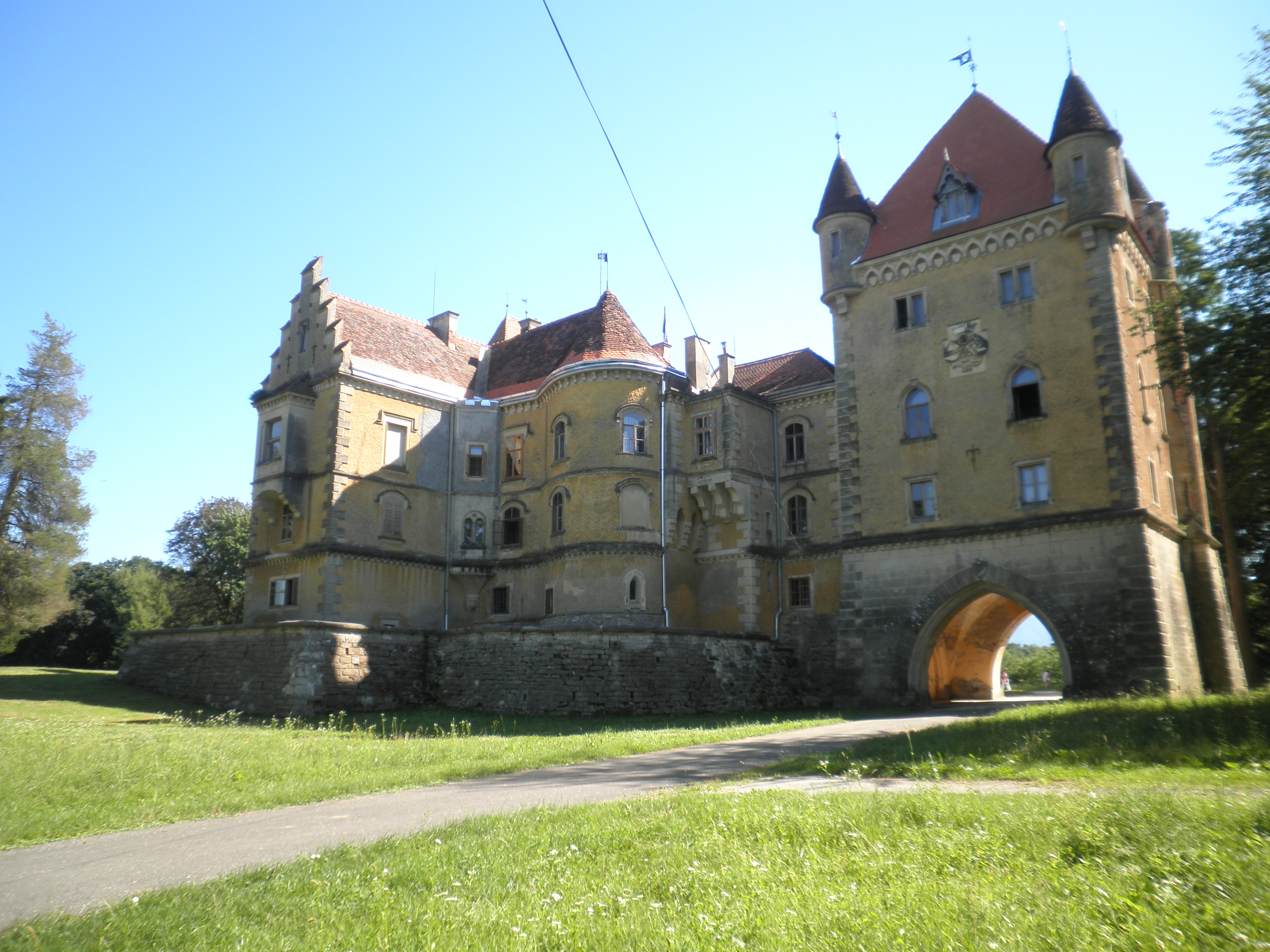 Maruševec Castle